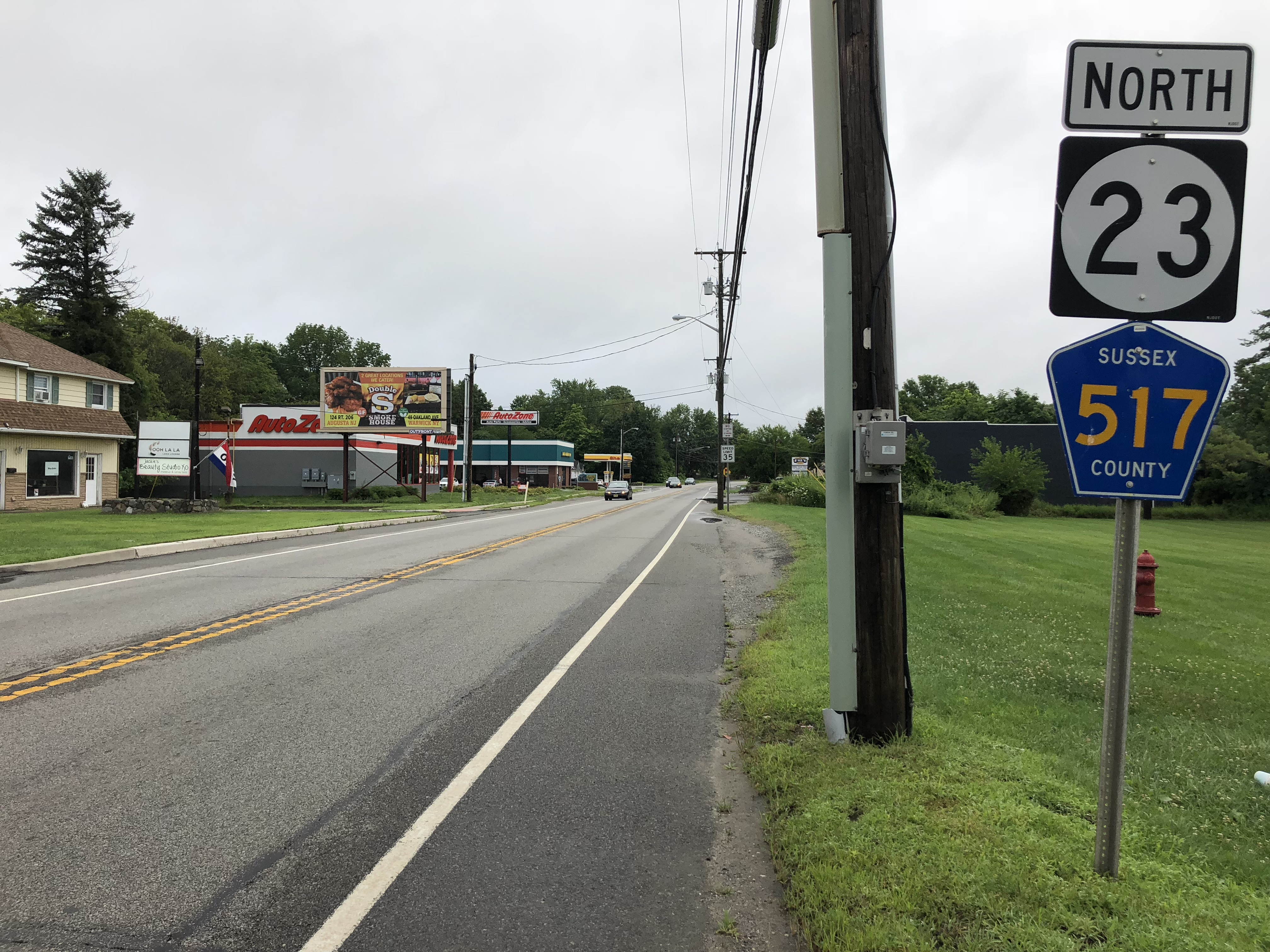 View north along New Jersey State Route 23 and Sussex County Route 517 just north of High Street in Franklin, Sussex County, New Jersey